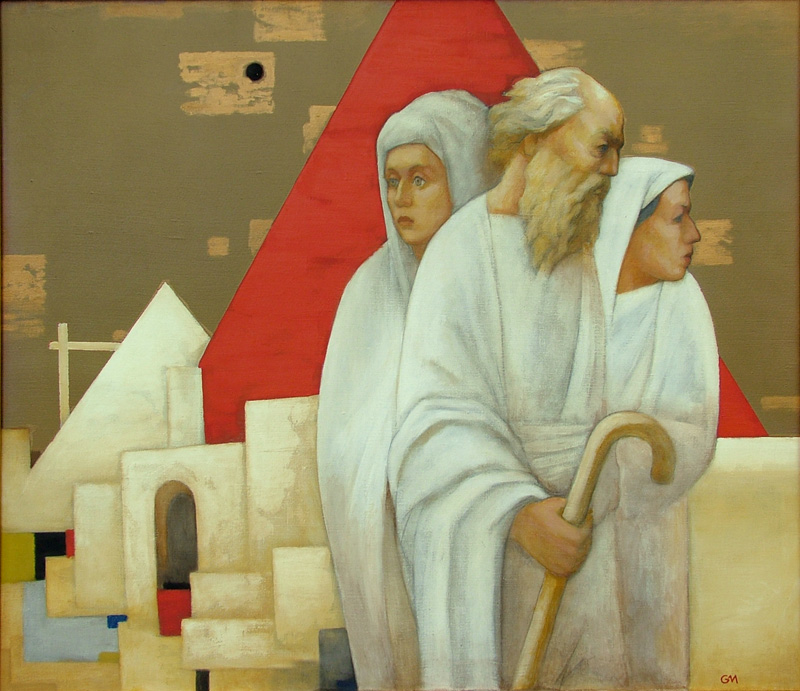 Grigory Mikheev. Exodus. acrylic, oil on canvas, 82х95, 2000.